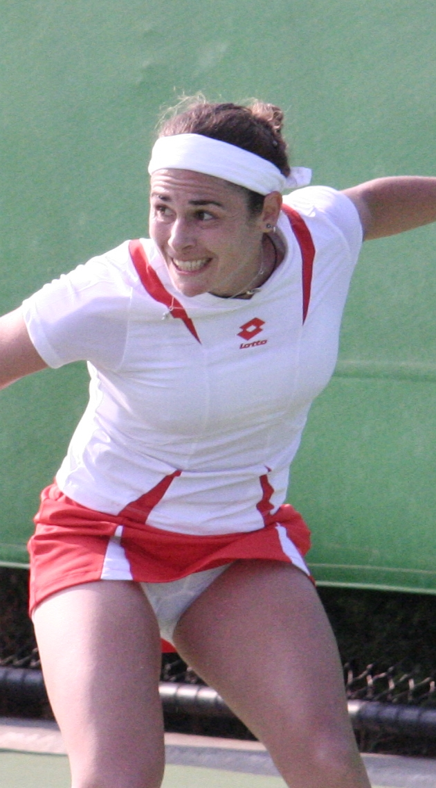 Virginia Ruano Pascual at their first-round match of the 2007 Australian Open.